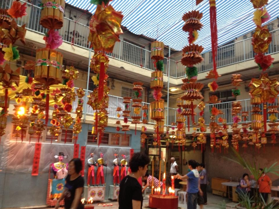 Yu Lan Festival in Wah Fu Estate, Hong Kong